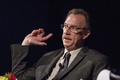 Presidential photographer Lucian Perkins discussing his work at the LBJ Library in Austin, Texas